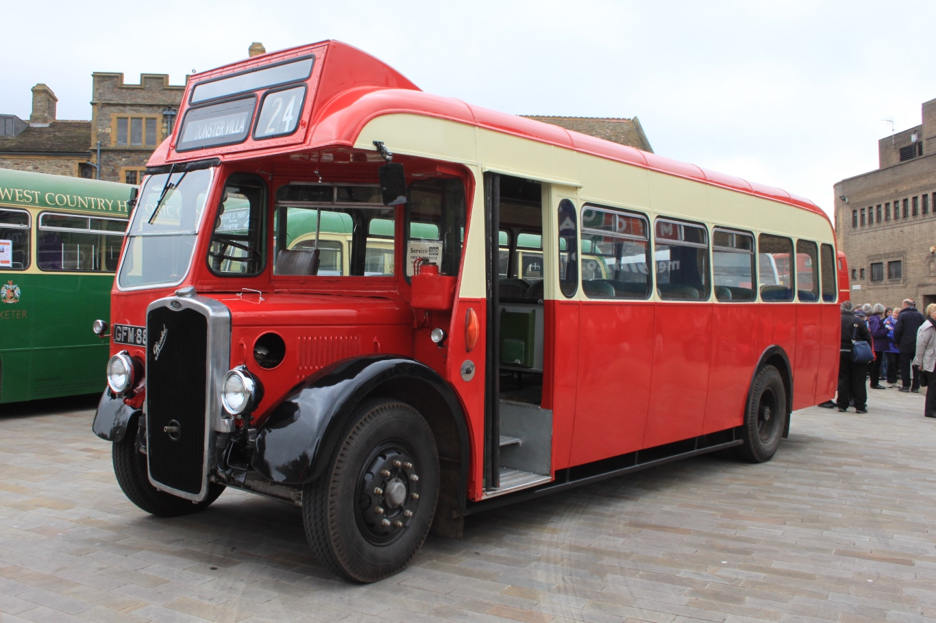 A 1948 Bristol L bus belonging to Quantock Heritage, registration mark GFM 882, at Taunton Vintage Bus rally in 2015. It is in the livery that it carried for a few years in the 1960s when it was Thames Valley fleet number S302. It was originally in the Crosville fleet and was later in the fleet of Rossmore Buses in Poole.